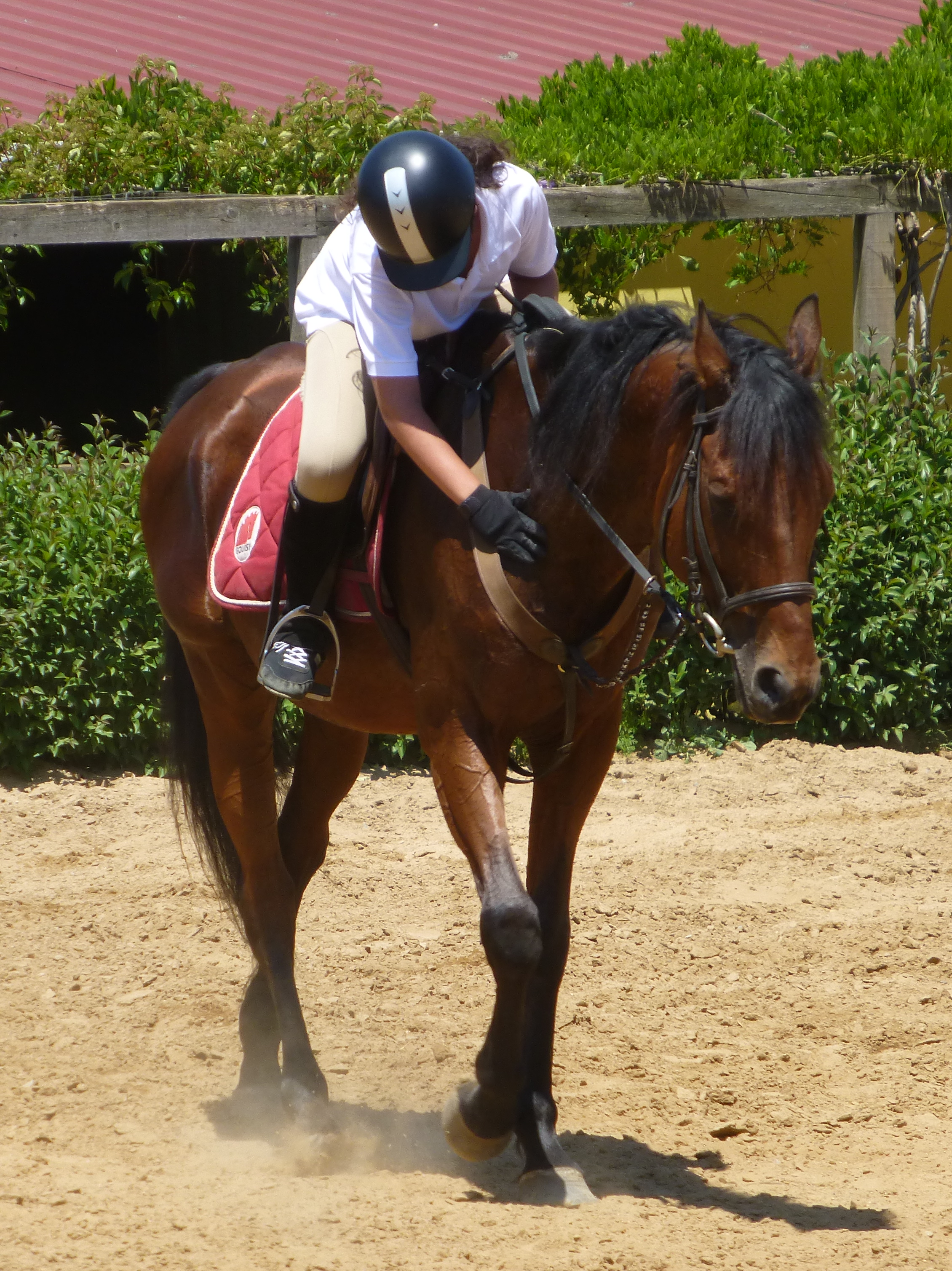 Horse riding, Equestrian riding